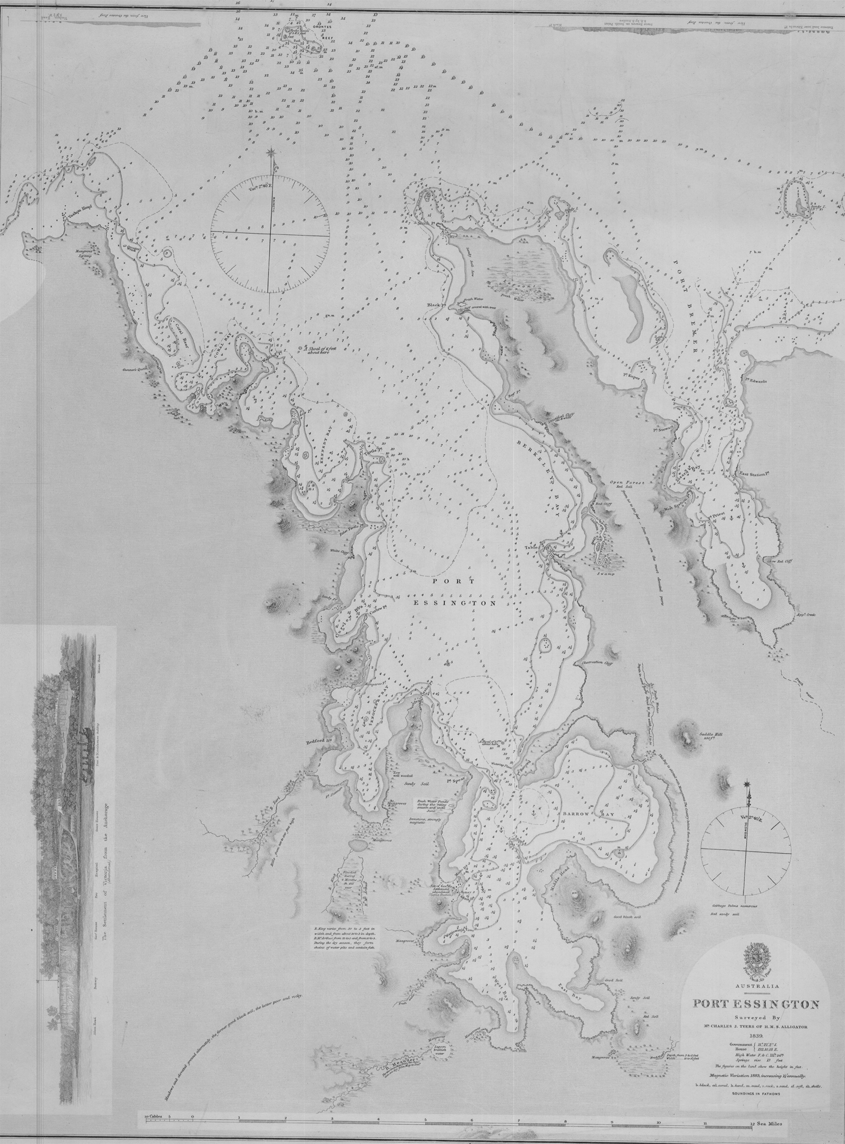 1839 chart of Port Essington, Cobourg Peninsula, Northern Territory, Australia